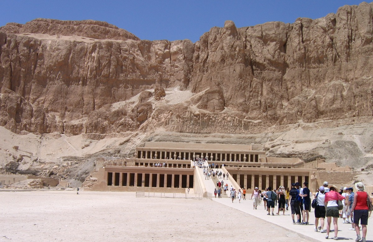 Djeser-Djeseru is the main building of Hatshepsut's mortuary temple complex at Deir el-Bahri.